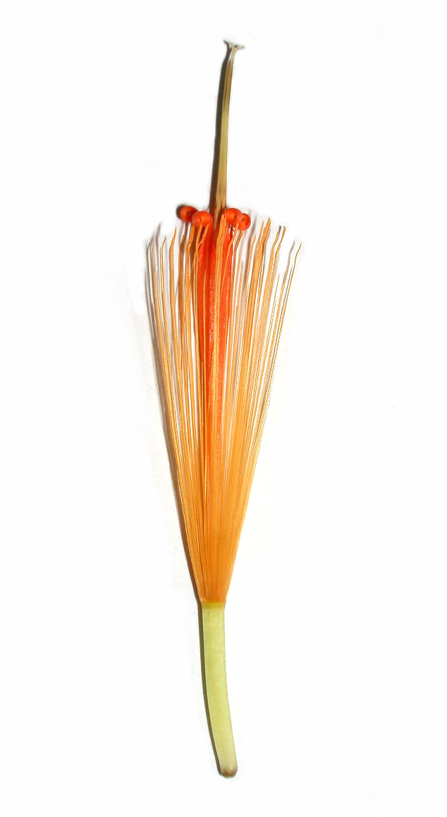 Stifftia chrysantha